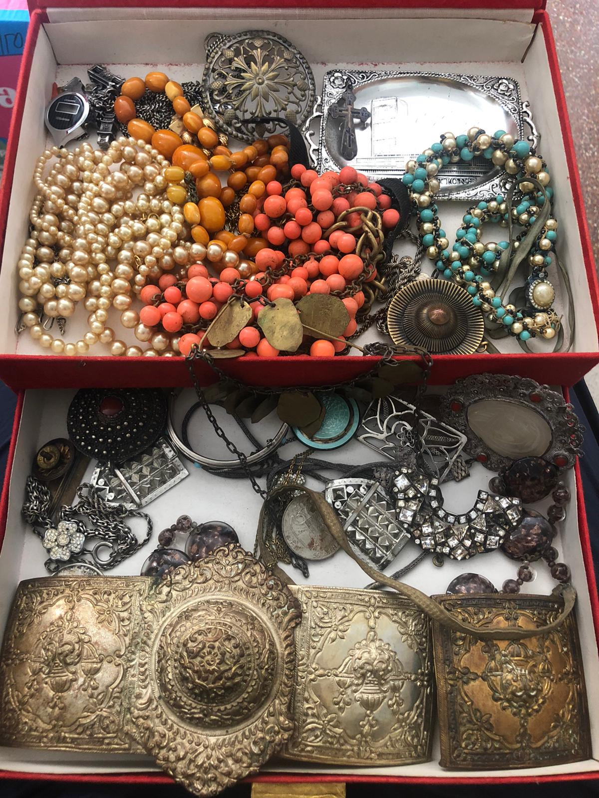 Jewlery of Anđelija Bunuševac Bingulac. It can be found in the Society for Culture, Art and International Cooperation Adligat in Belgrade, Serbia. Српски (ћирилица): Накит Анђелије Бунушевац-Бингулац у Удружењу за културу, уметност и међународну сарадњу „Адлигат” у Београду.